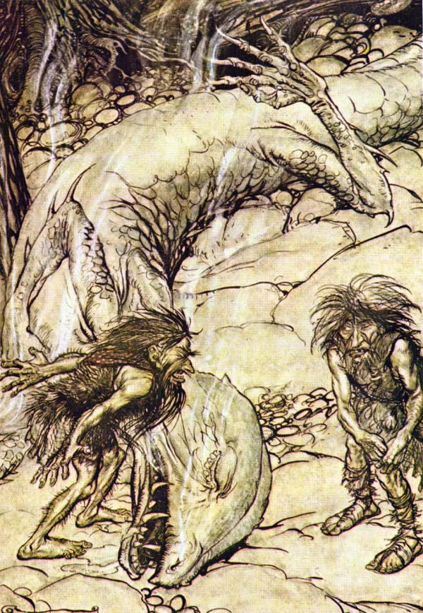 Alberich and Mime argue by Fafner's dead body.